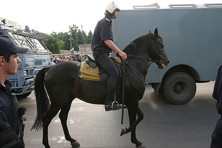 Police cordon protecting participants at Bucharest's GayFest parade, 2006.